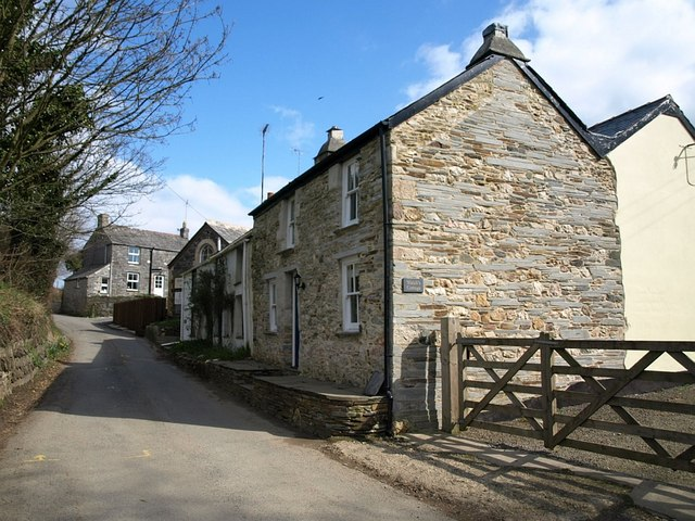 Trewalder This Cornish hamlet is set on slopes above a tributary of the River Allen. Beyond the pair of cottages is the gable end of the former Methodist chapel.